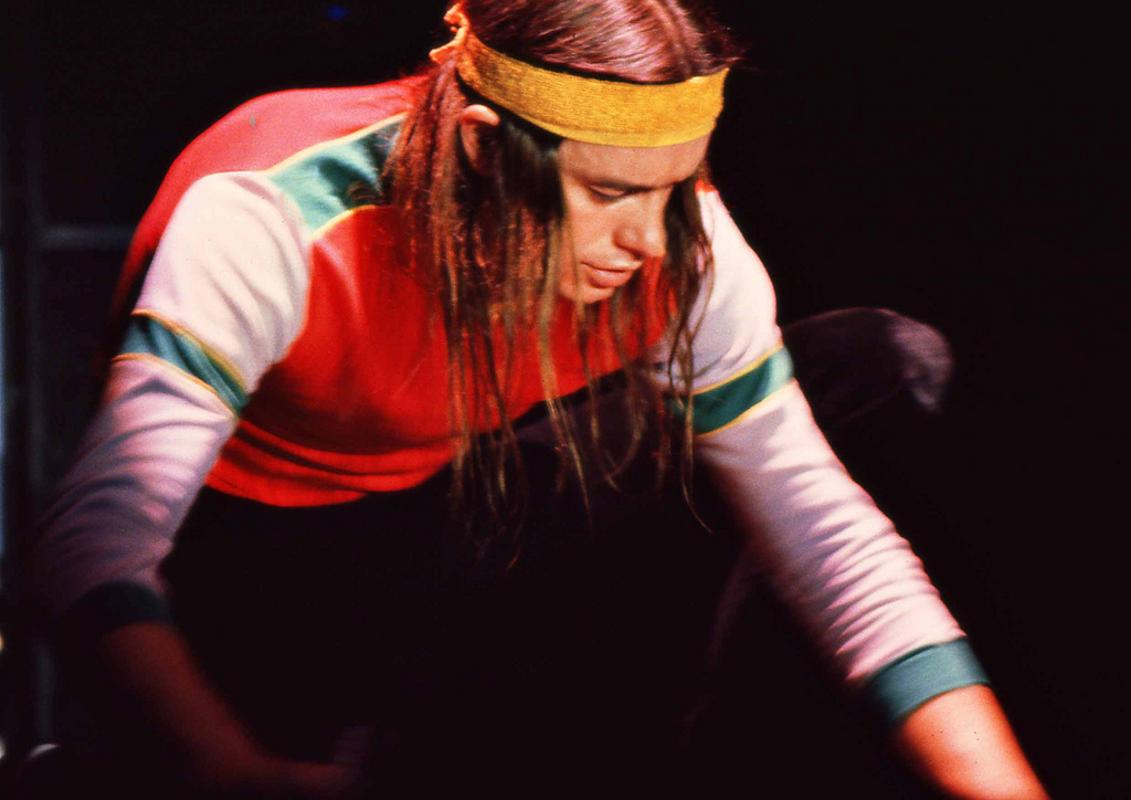 Jaco Pastorius performing with Weather Report